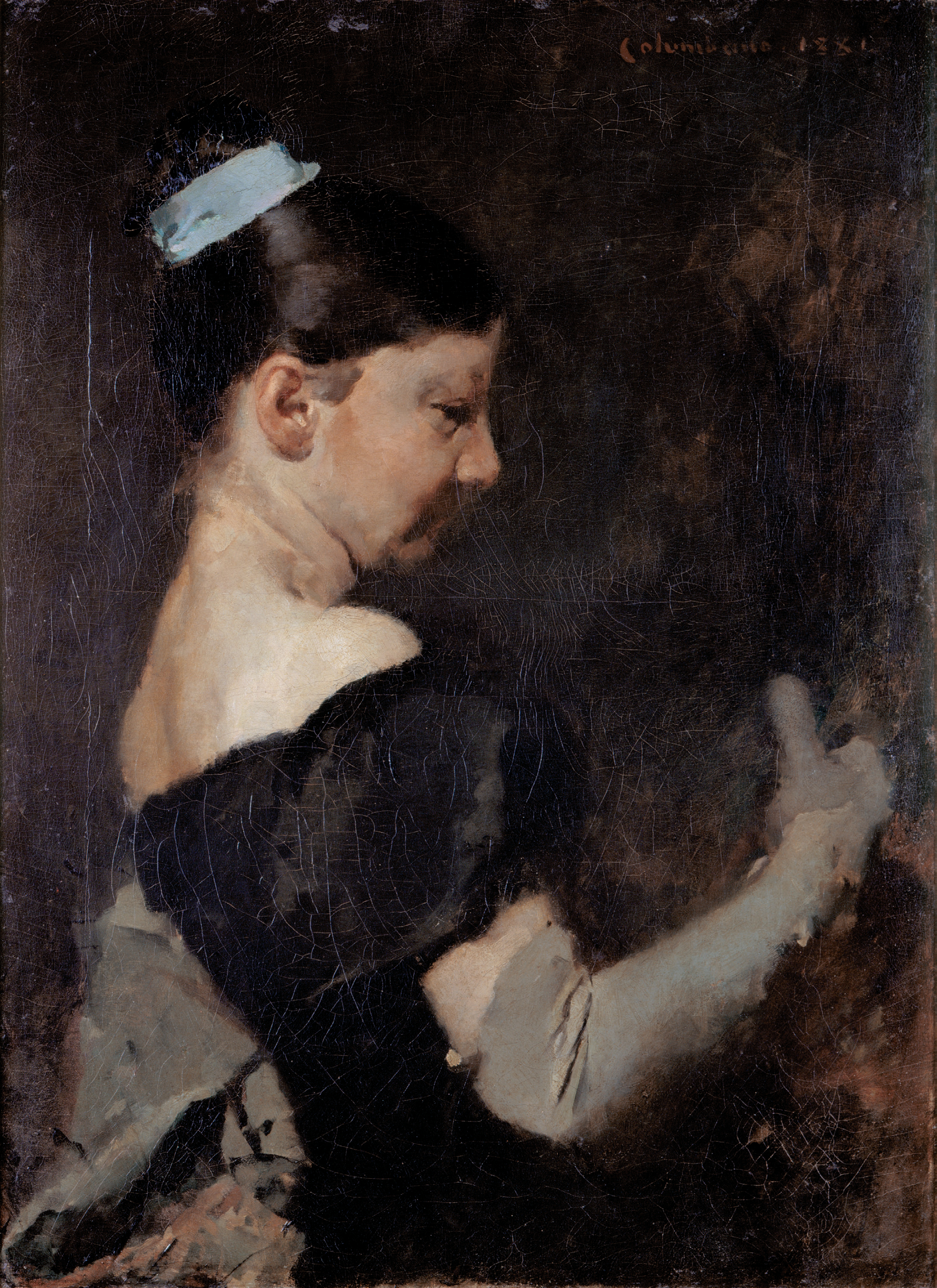 The Grey Glove (1881), by Columbano Bordalo Pinheiro. It depicts the artist's elder sister, Maria Augusta.